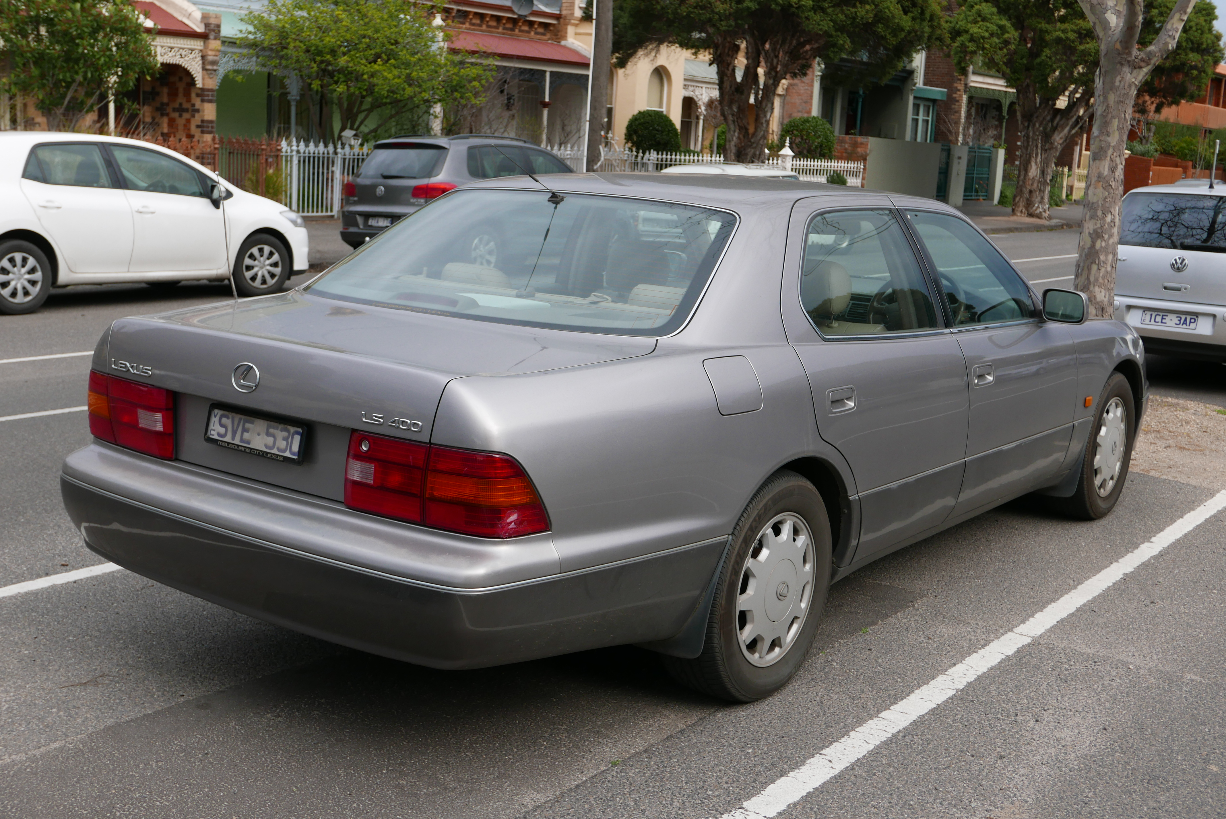 1995 Lexus LS 400 (UCF20R) sedan. Despite the date discrepancy between the description and the vehicle registration information below, a check of the VIN reveals a build date of September 1995. Photographed in Fitzroy North, Victoria, Australia. Vehicle registration enquiry results Jurisdiction Victoria Registration SVE530 Chassis code JT753UF2000040225 Engine code 1UZ0554960 Compliance date 1996-01 Year of manufacture 1996